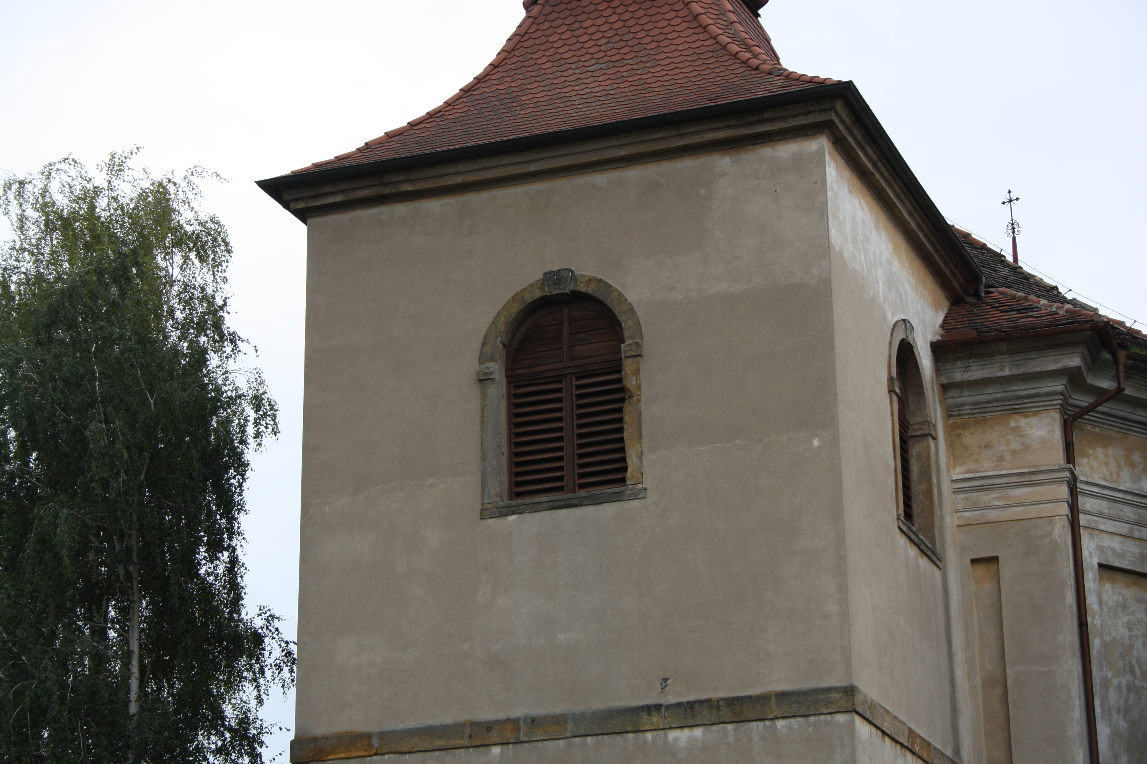 St. Martin's church tower in Velemín municipality, Litoměřice District, Czech Republic.